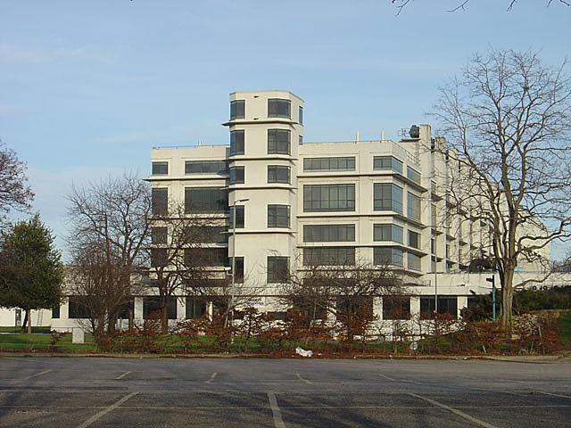 Boots, Beeston - D6 building. This building was the next major development after the famous D10 factory 678655 and contains a mixture of offices and production facilities.